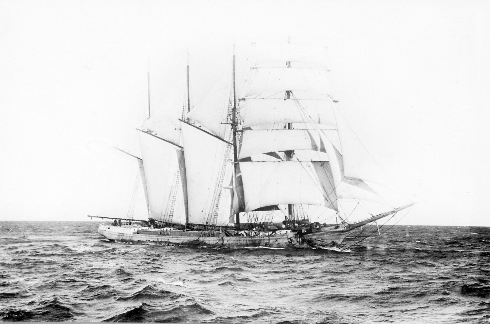 Photograph of the New-Zealand barquentine Lyman D. Foster taken some time between 1917 (when she was rigged as a barquentine) and 26 March 1919 when she was last seen. The photographer is Schutze, George. Shows a four masted barquentine (barkentine) at sea. Gift of Malcolm M. Brodie, 1946.